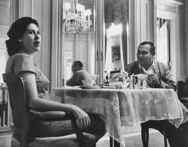 Cuban dictator Fulgencio Batista while having breakfast in the Presidential Palace with wife Marta Batista - Havana, Cuba, April 1958.